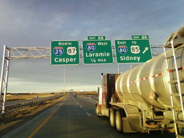 Interstate 25 northbound at interchange with Interstate 80 in Cheyenne, Wyoming.